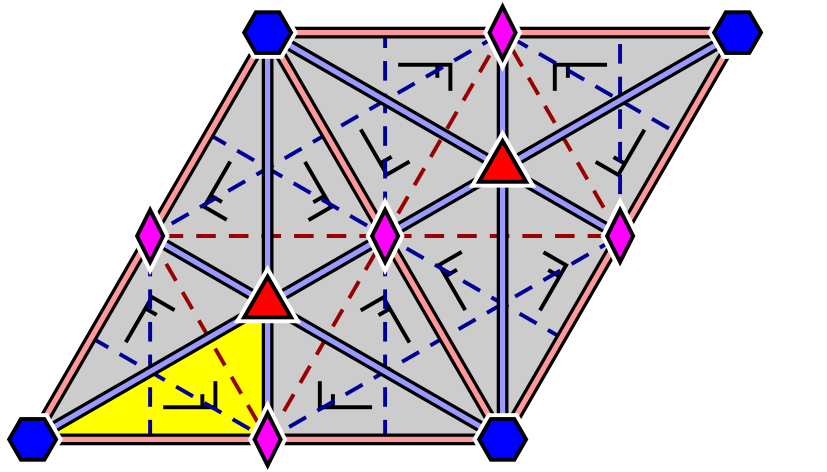 Cell structure diagram of the wallpaper group p6mm aka. p6m